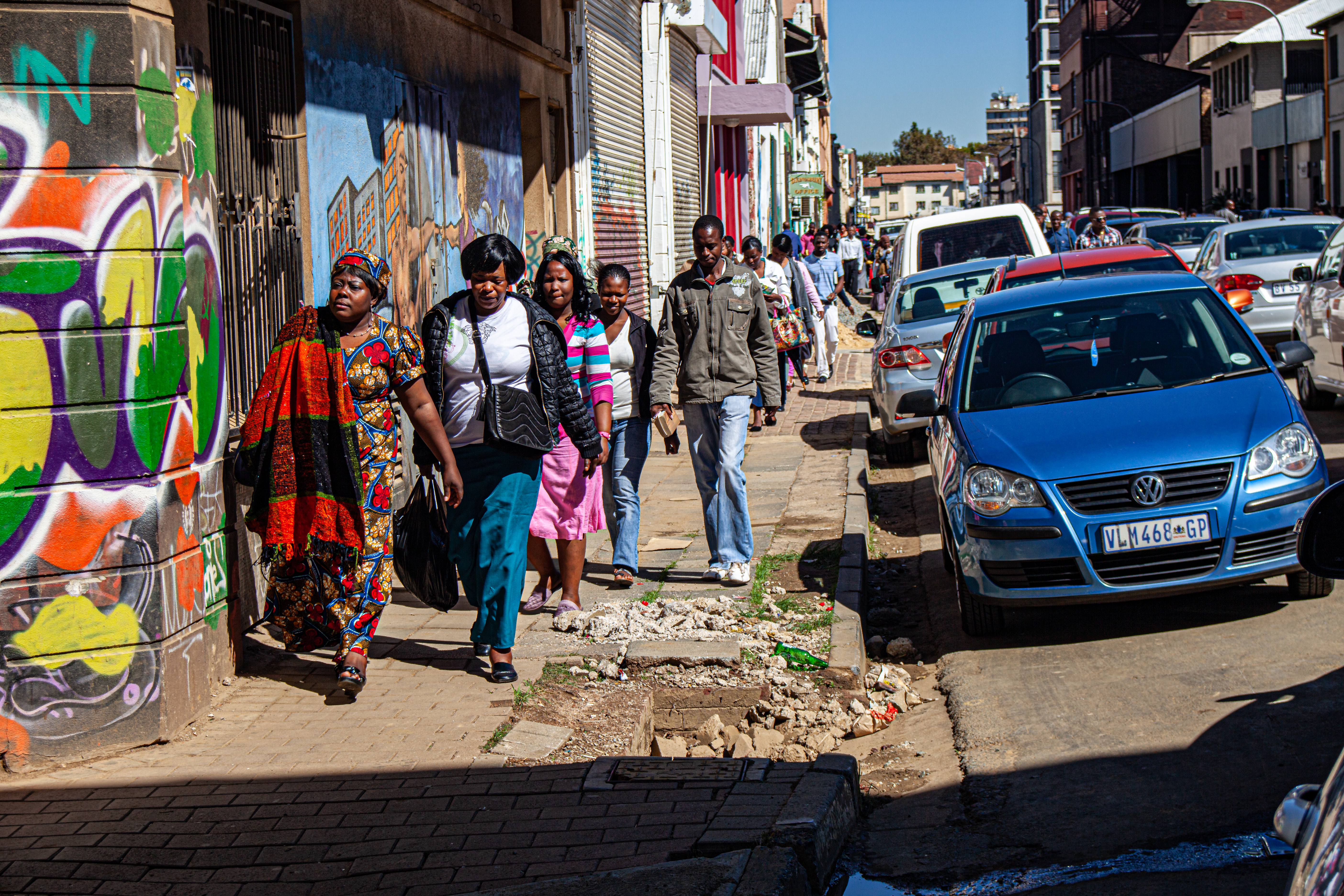 People busy with there lives in new town in Johannesburg This is an image with the theme "Africa on the Move or Transport" from: South Africa